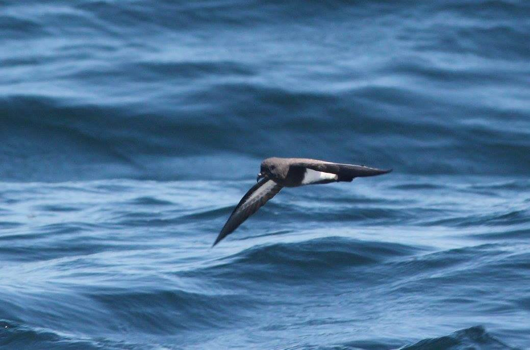 Black-bellied storm petrel near Cape Town, South Africa